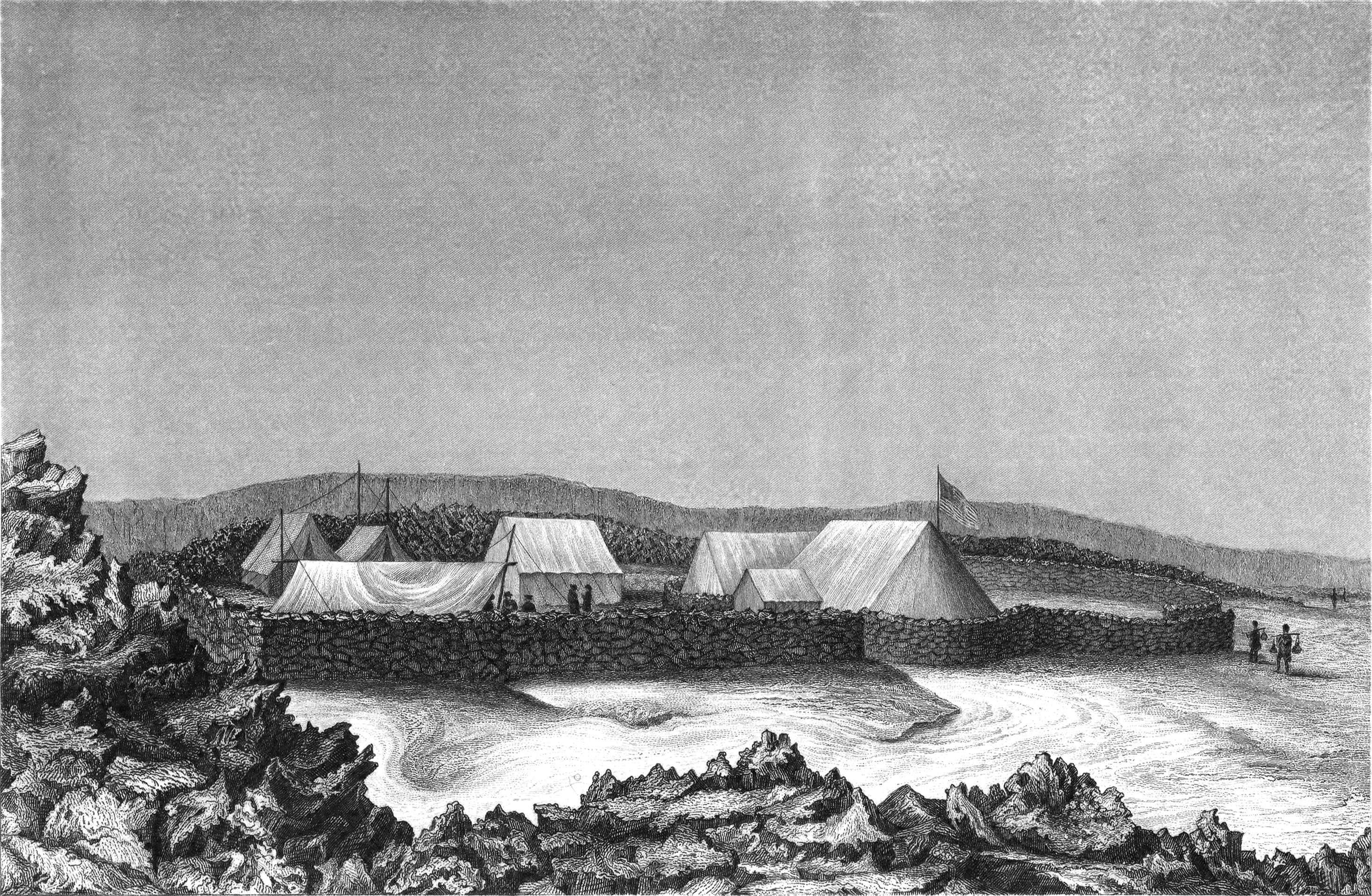 Wilkes Campsite — Illustration from Lt. Charles Wilkes journal of the U.S. Exploratory Expedition, January 1841 by ship artist Alfred Thomas Agate of their camp site at Mokuaweoweo, the summit of Mauna Loa.